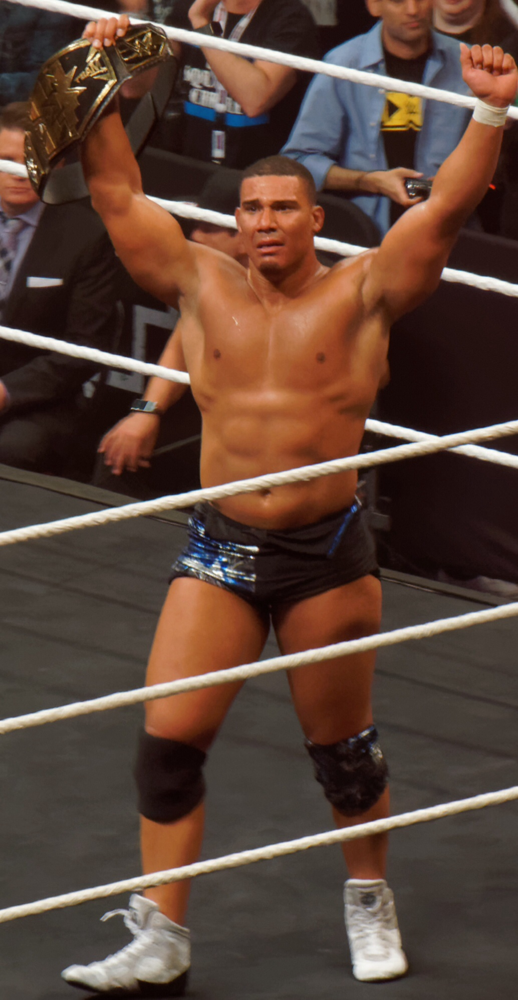 NXT TakeOver: Dallas was a major professional wrestling show in the NXT TakeOver series that took place on April 1, 2016, produced by WWE, showcasing its NXT developmental brand, and was streamed live on the WWE Network. It took place in the Kay Bailey Hutchison Convention Center in Dallas, Texas, during the weekend of WrestleMania 32. It was the first show in the NXT TakeOver series to be broadcast live on the WWE Network during WrestleMania weekend and first of 2016.[4] It was notable for Shinsuke Nakamura's WWE debut and first live match. The event received critical acclaim, with critics endorsing it as being better than WWE's WrestleMania 32 held two days later. The Zayn-Nakamura match was also lauded for being better than any match from WrestleMania 32. Chad Gable & Jason Jordan def.(pin) Dash Wilder (c) & Scott Dawson (c) for the NXT Tag Team Titles (title change)